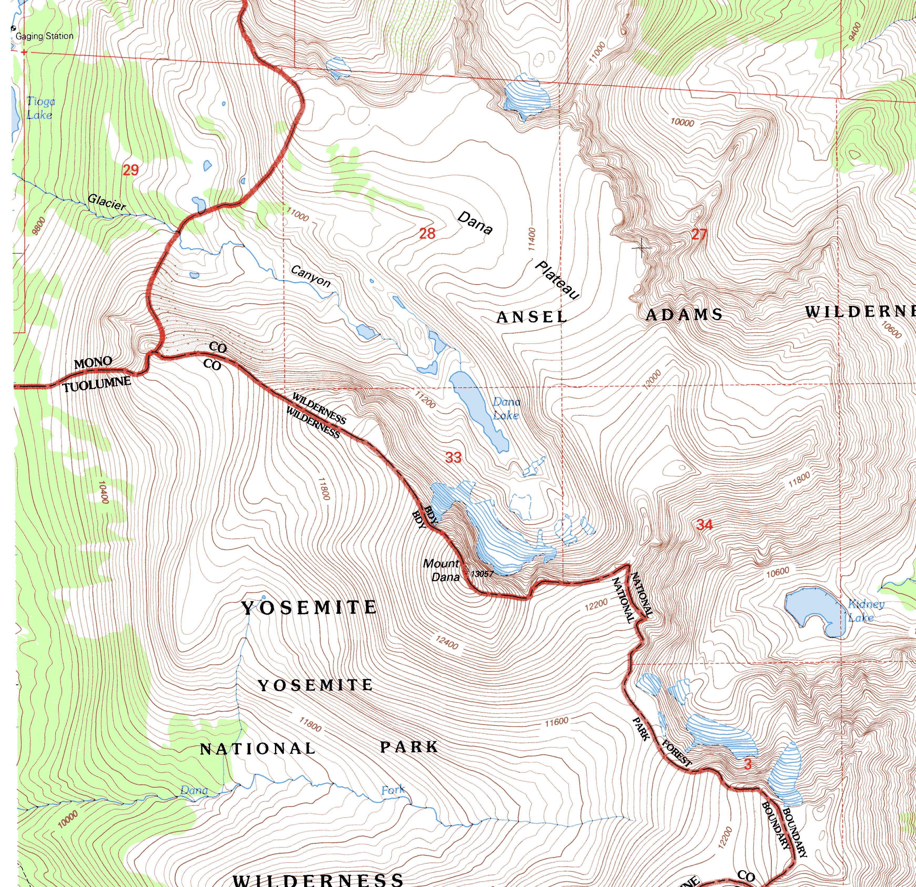 Topographic Map of the Mount Dana Area